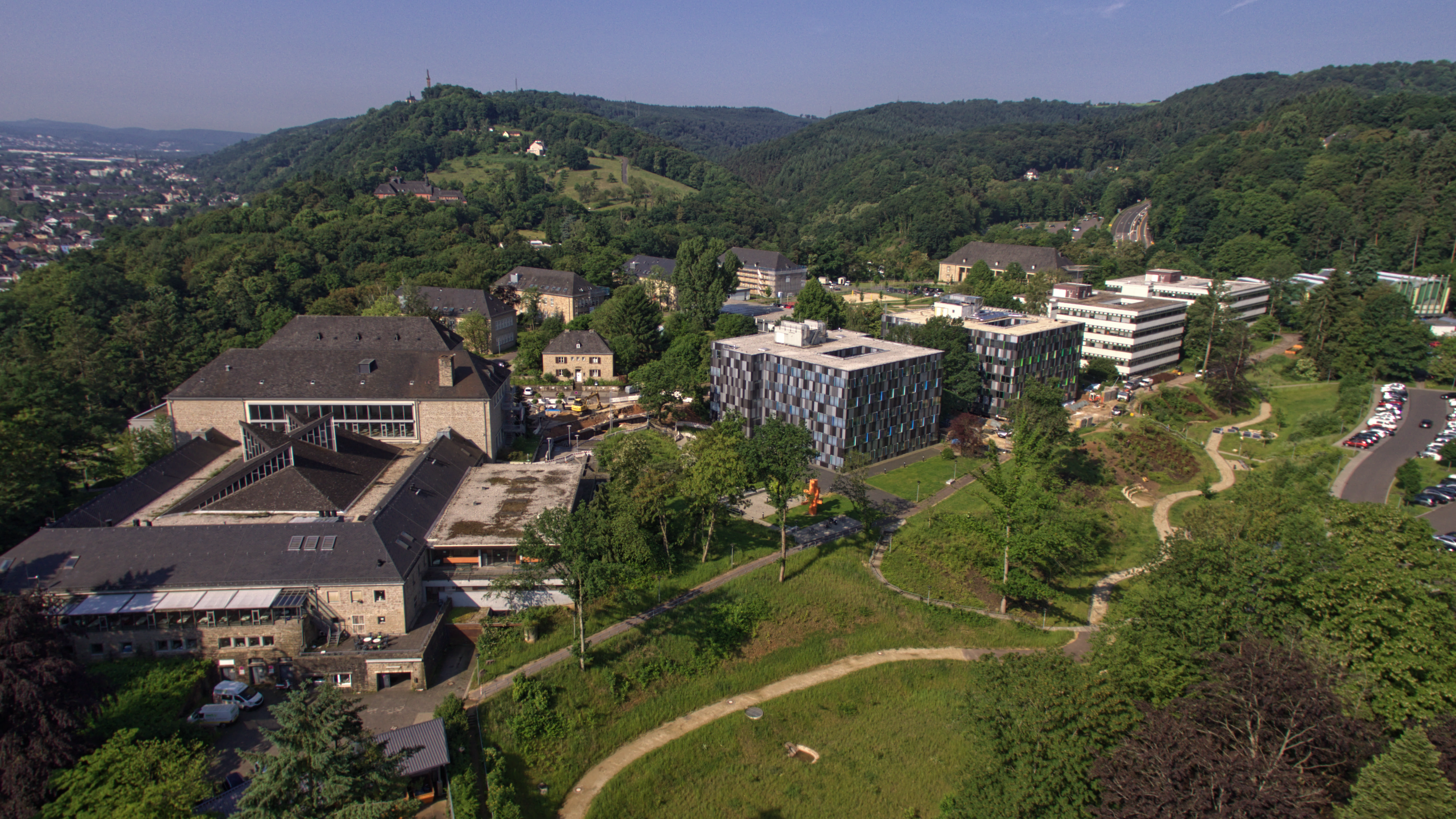 Trier (Germany), university of applied sciences, main campus (Schneidershof)